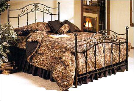 Wrought-Iron-Furniture